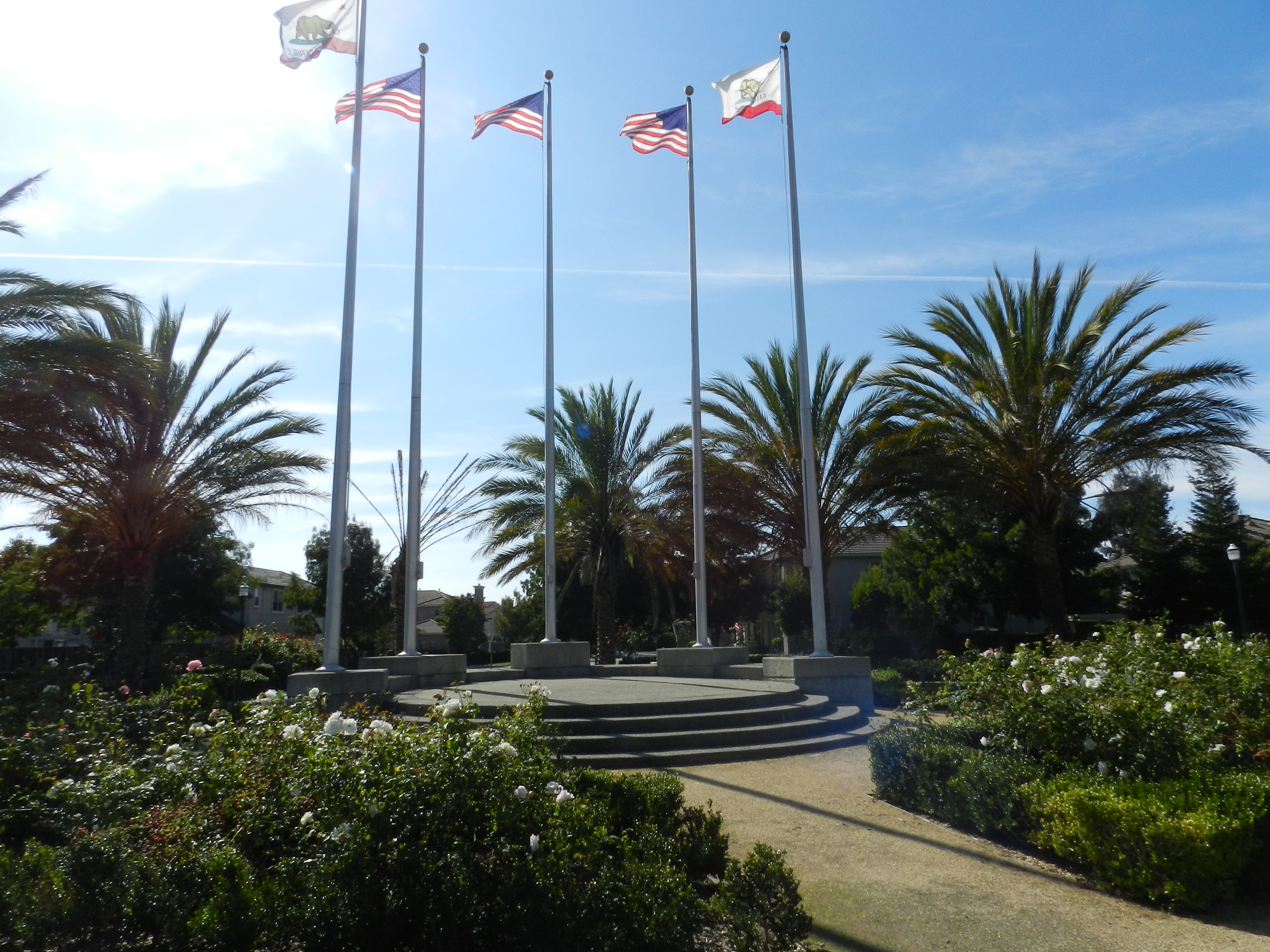 five flags, roundabout, near Mission Blvd. and Hayward Golf Course, Hayward, California